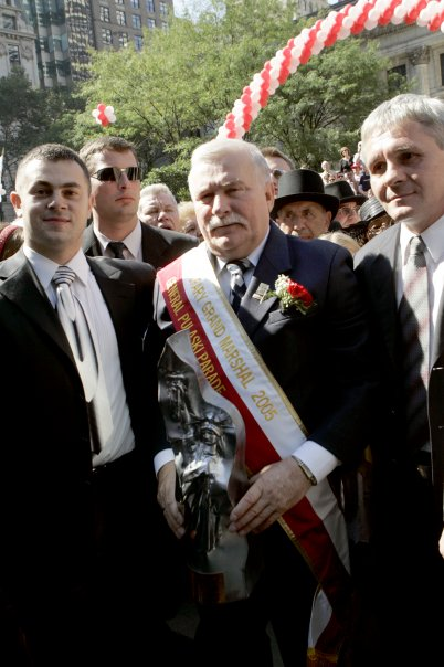 Bogdan Węgrzynek wręczający Statuę Wolności Lechowi Wałęsie